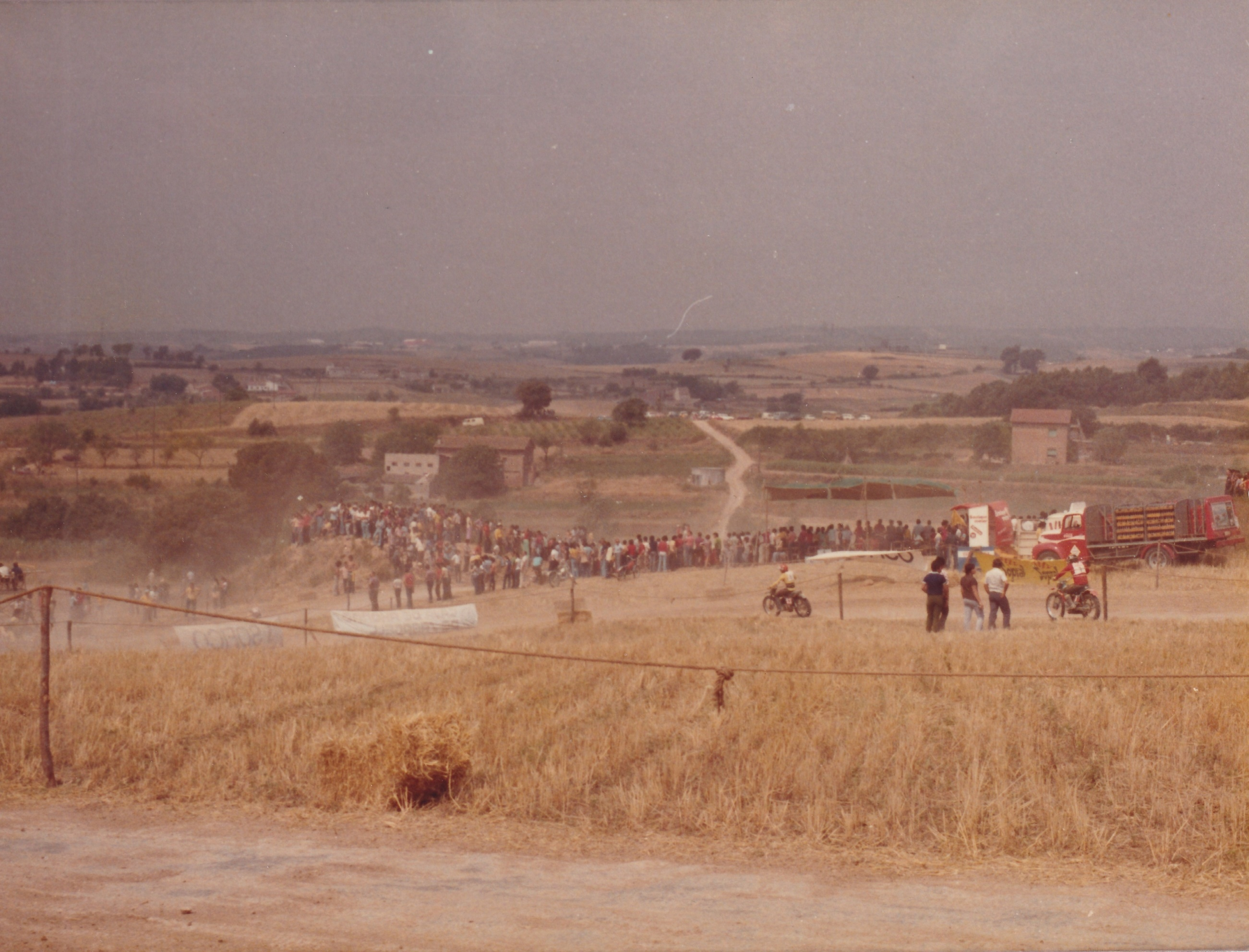 Unidentified race at Circuit de Gallecs, in mid 70s. Judging by some "SOFICO" banners, it could be on 1974 summer. At the back, Can Xalet and the big water tank.